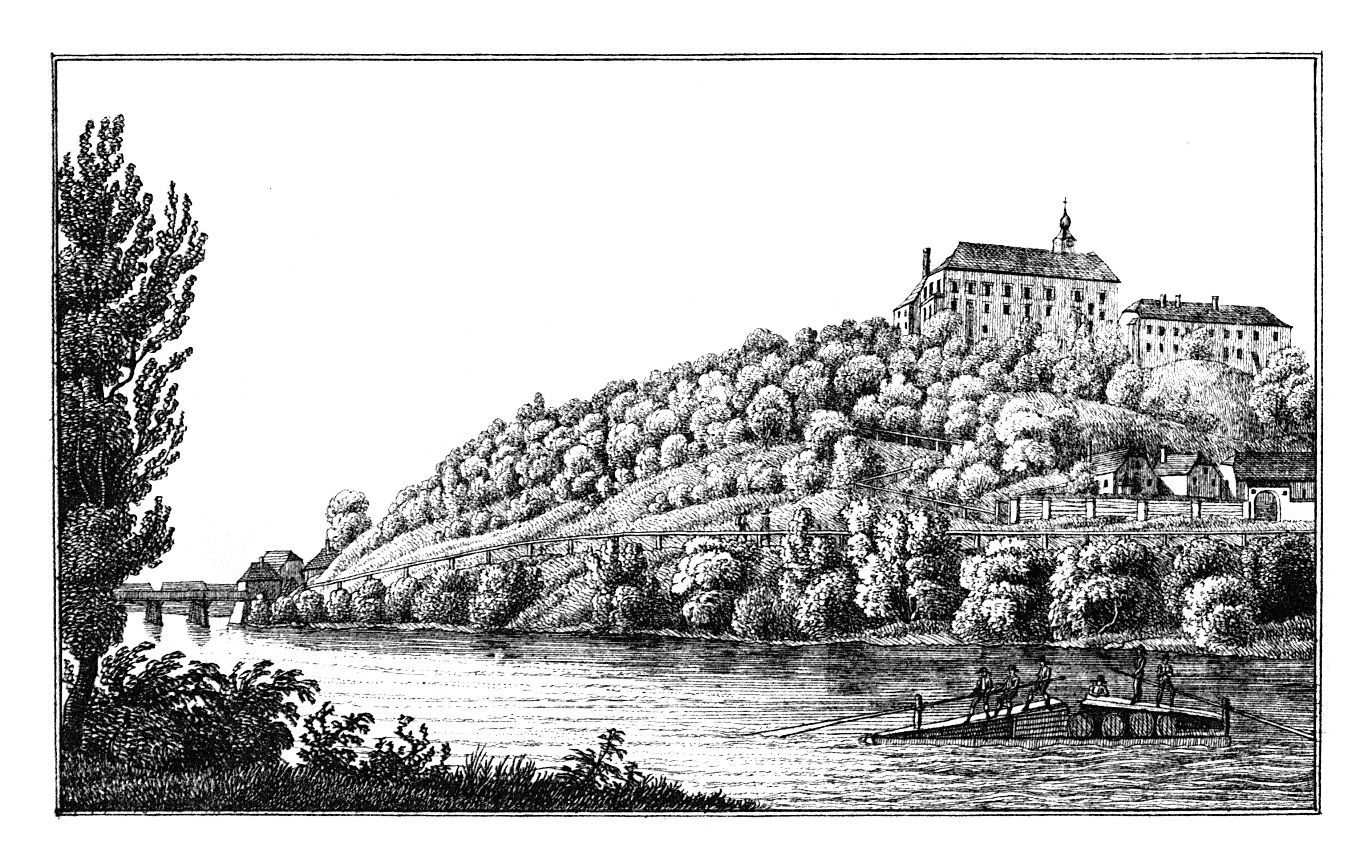 J. F. Kaiser - lithographirte Ansichten der Steyermärkischen Städte, Märkte und Schlösser, Graz 1824-1833 Joseph Franz Kaiser (1786–1859) Alternative names J. F. KaiserDescriptionAustrian printer and editorDate of birth/death 11 March 1786 19 September 1859Location of birth/death Graz (Styria) GrazAuthority control : Q1499963 VIAF: 30629353 ISNI: 0000 0000 3083 0153 LCCN: n87141671 GND: 129880159 NLP: A24960305 WorldCat creator QS:P170,Q1499963 . Scanprojekt Community Projektbudget 2012 This scan or this PDF-file was created within the GLAM-project Bookscanning, supported by Wikimedia Germany and Wikimedia Austria as a part of the community-project to capture books, documents and pictures which are not eligible to copyright or for which the copyright has expired. This document describes or depicts an object which is located in Austria today. Send requests for uncompressed scans to Hubertl. This work is in the public domain in its country of origin and other countries and areas where the copyright term is the author's life plus 100 years or less. You must also include a United States public domain tag to indicate why this work is in the public domain in the United States. This file has been identified as being free of known restrictions under copyright law, including all related and neighboring rights.